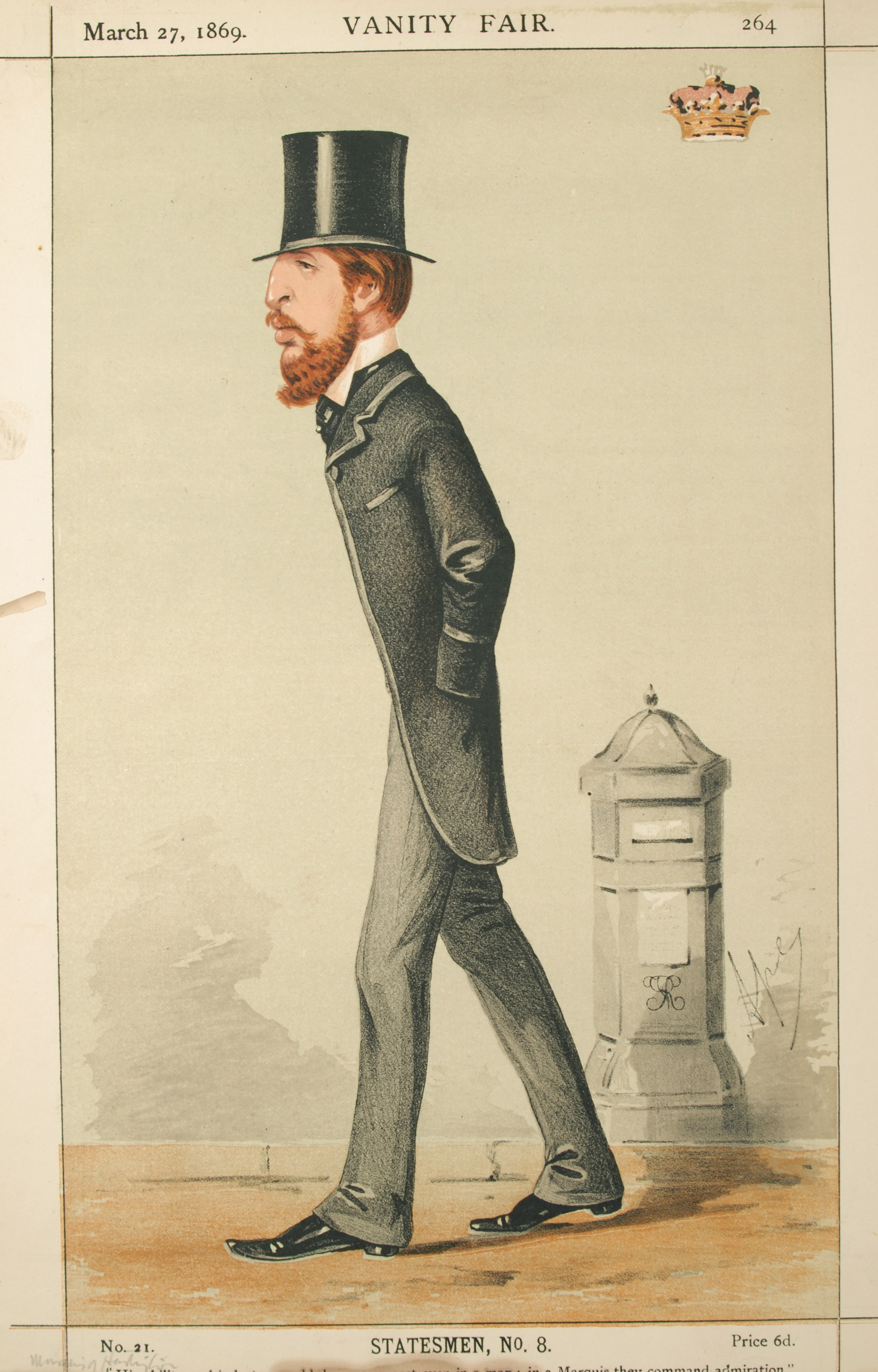 Statesmen No.8: Caricature of The Marquis of Hartington. Caption reads: "His ability and industry would deserve respect even in a man; in a Marquis they command admiration."